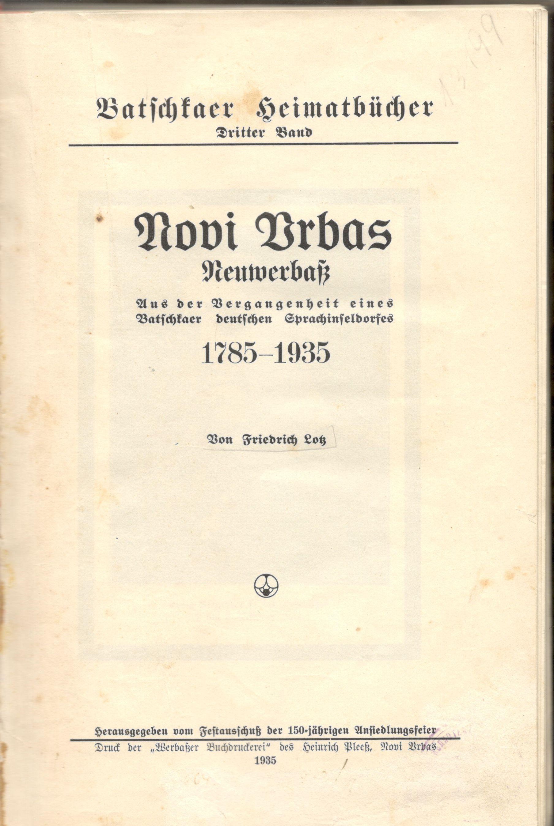 The first page of the original monograph of Novi Vrbas from 1935, published on the occasion of the 150th anniversary of the settlement of the Germans in Novi Vrbas